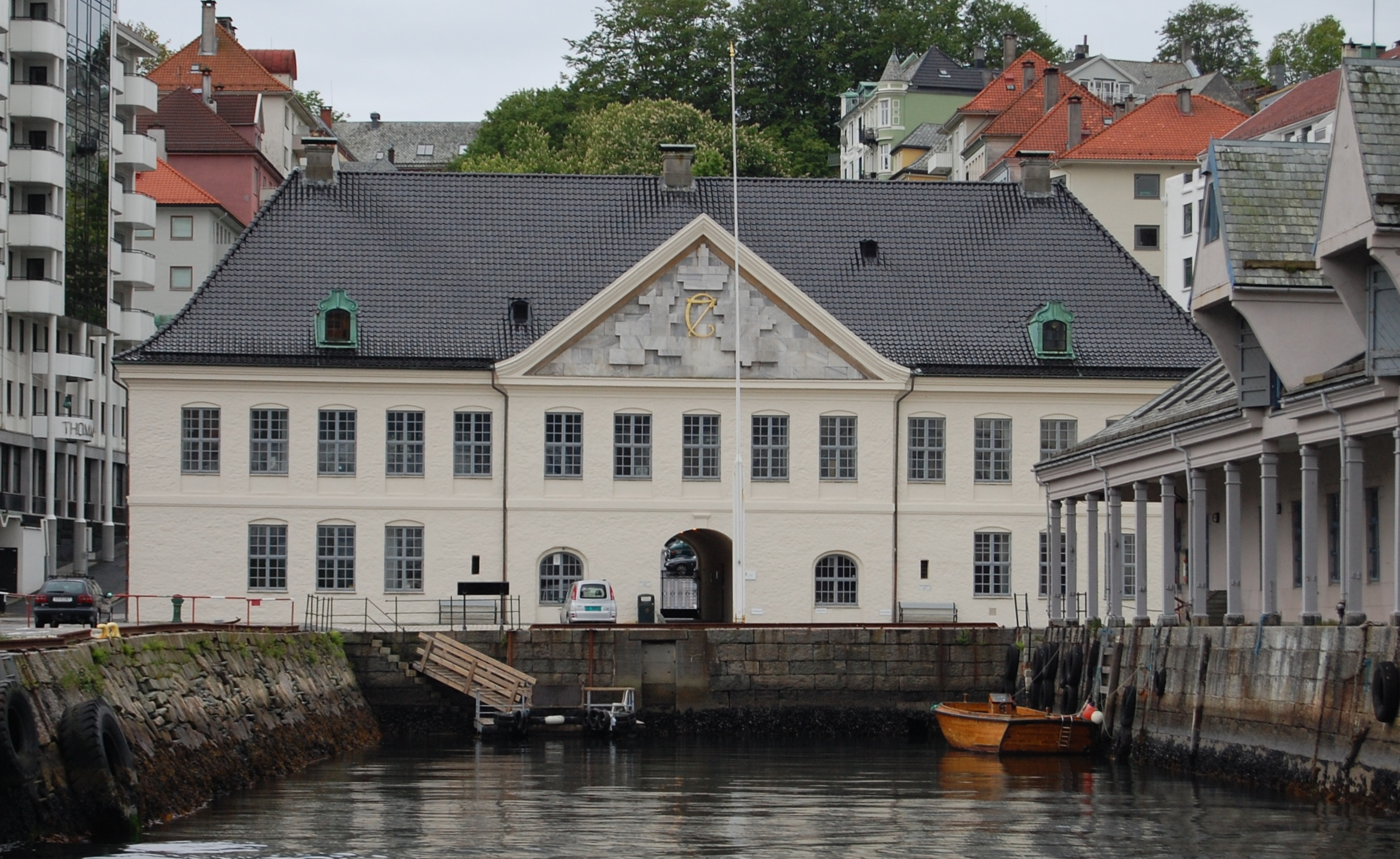 Tollboden, Bergen, Norway.